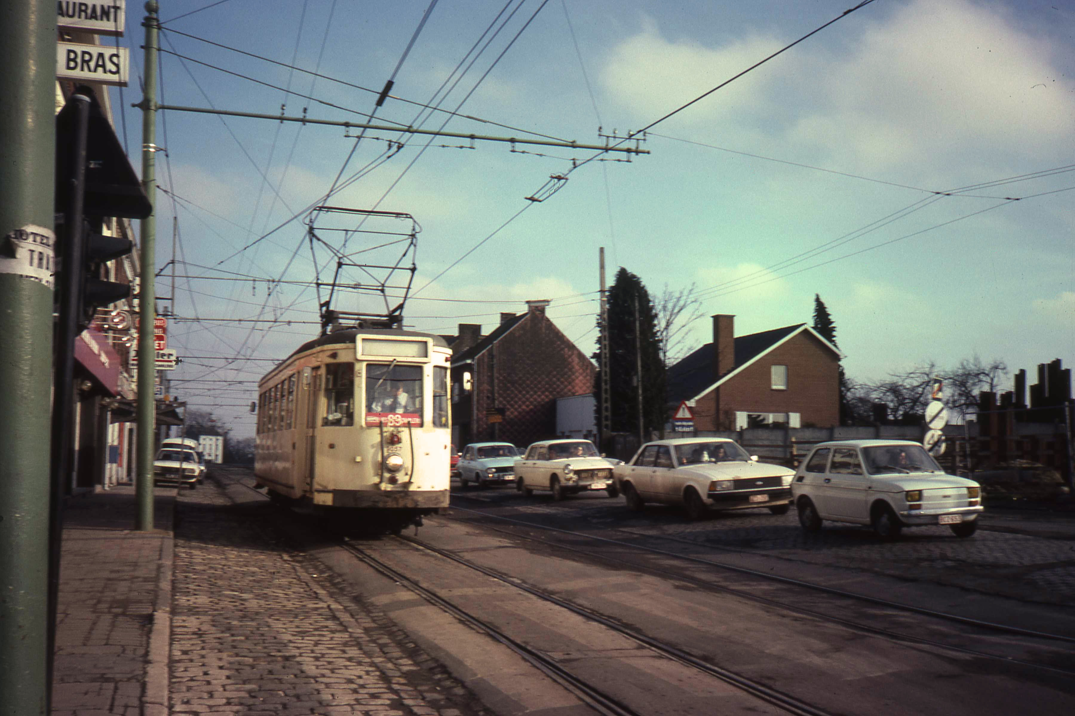 Vicinal tram of line 89 in Anderlues. Type S